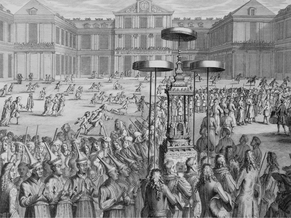 An engraving from the French Almanac of 1687, by an unknown artist, depicts the carriage of a royal missive of King Narai of Ayutthaya to King Louis XIV of France, using a portable castle called butsabok. The diplomatic mission bringing the royal missive from Ayutthaya to France, led by Kosa Pan, arrived in Paris on 1 September 1686 CE. The original description is as follows: "Almanach pour 1687: ambassade du Siam à Versailles en 1686, 1687 "This engraving represents the arrival at Versailles, on September 1, 1686, of the letter engraved on a gold leaf sent by the King of Siam (Thailand). The eldest of the Siamese ambassadors knew the court of the Emperor of China Kangxi and his master, King Phra Naraï (1633–1688), wanted to know how the court of Versailles supported the comparison with that of China. "Approaching the Ambassadors' staircase [the butsabok], one cannot help but be stunned by its majesty. One could justify crossing oceans to see nothing but this monument. But impassively we continue on. The drums and trumpets, with their strangely harmonious racket, smother the comments of the onlookers as they point to our outfits. One thousand five hundred glares testify to the importance of this day, and accompany us through salon after salon, each rivalling the other in its splendours, right up to the hall where we await the king."